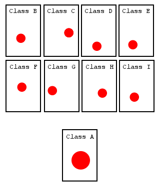 This image shows how a change in a "Class A" can cause multiple minor changes to several other classes in a software system. This is defined as a shotgun surgery.